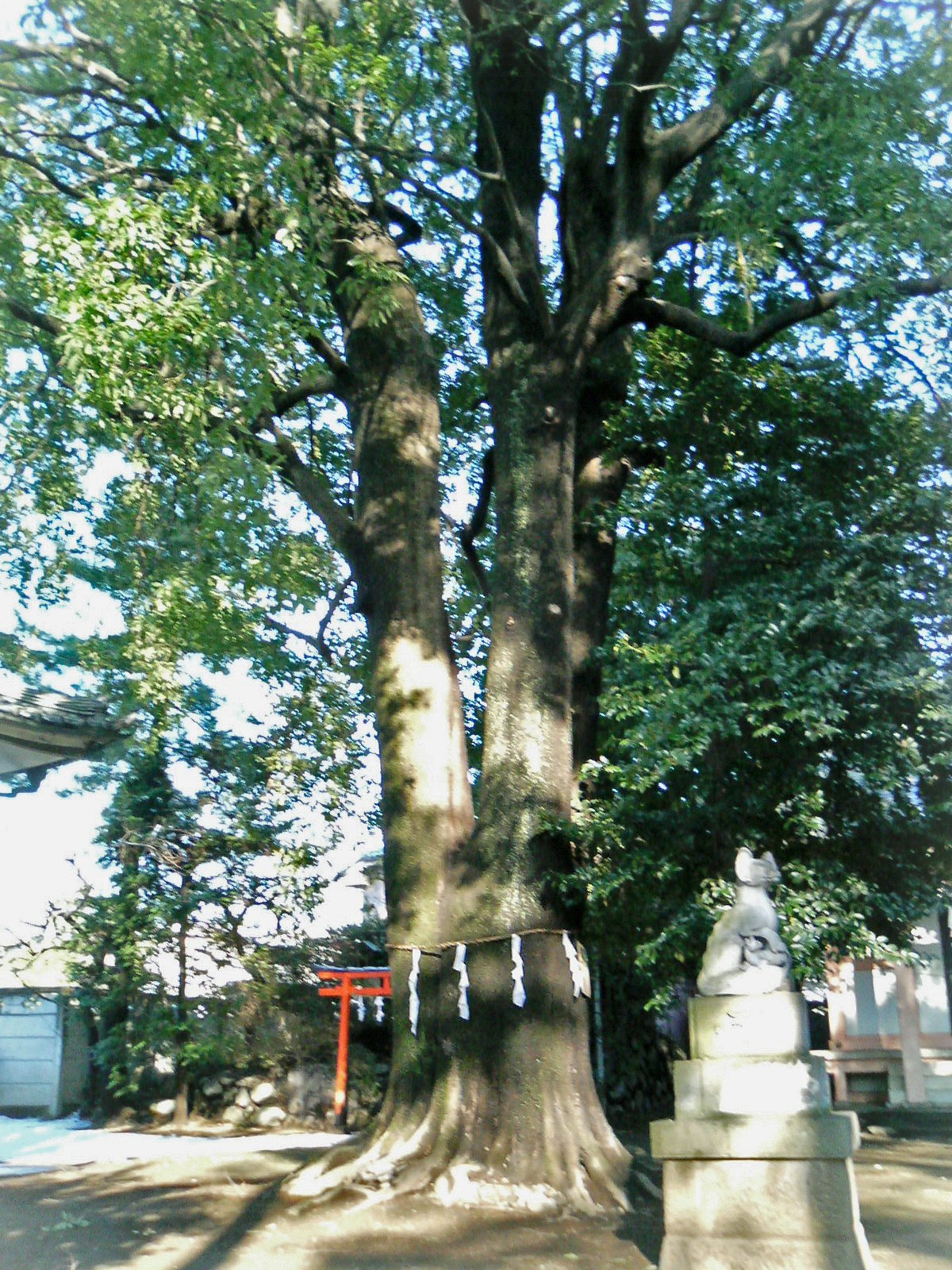 Wada Inari-jinja